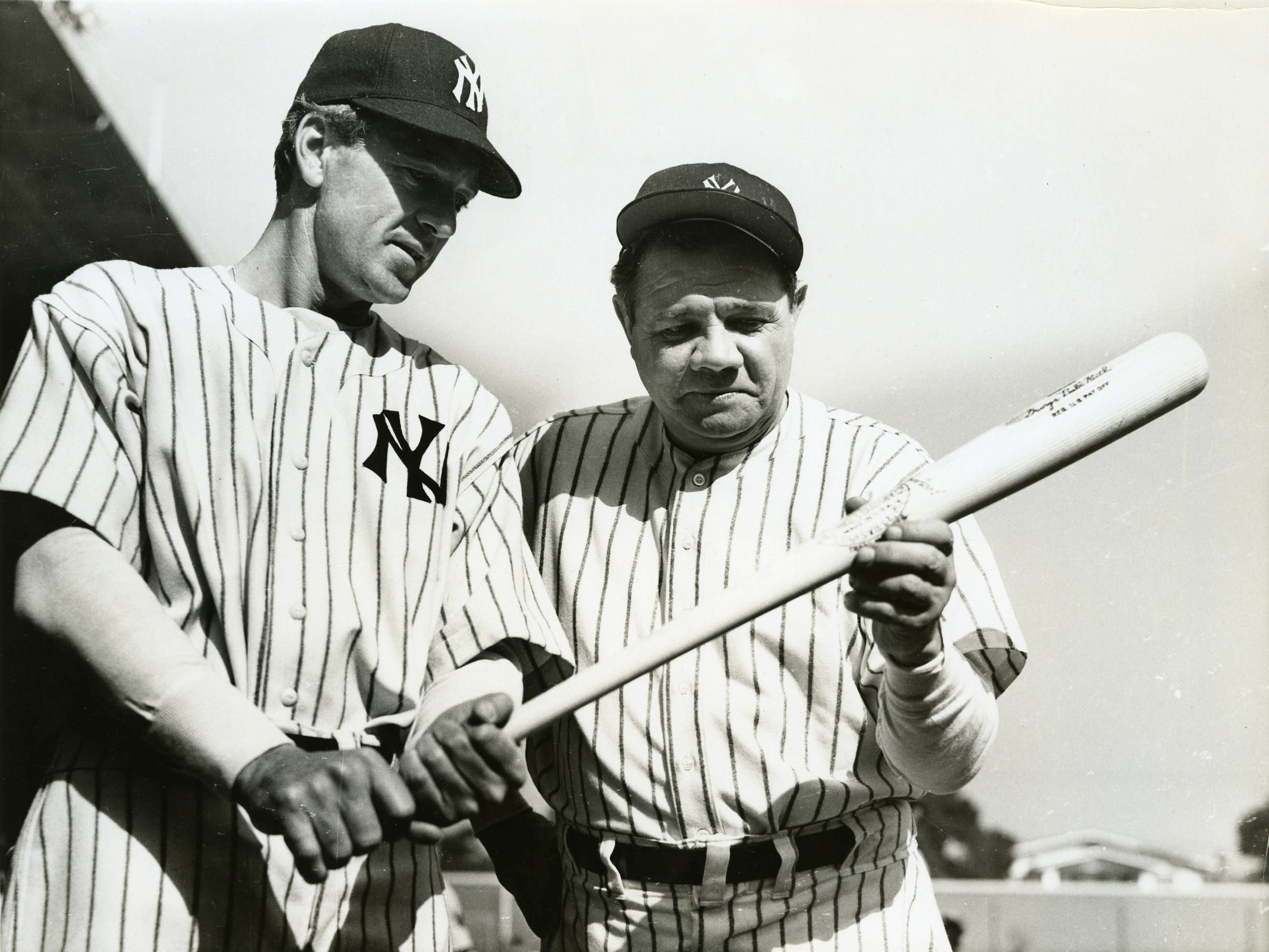 Babe Ruth (right) with actor Gary Cooper in the 1942 film The Pride of the Yankees, about the life of Lou Gehrig.